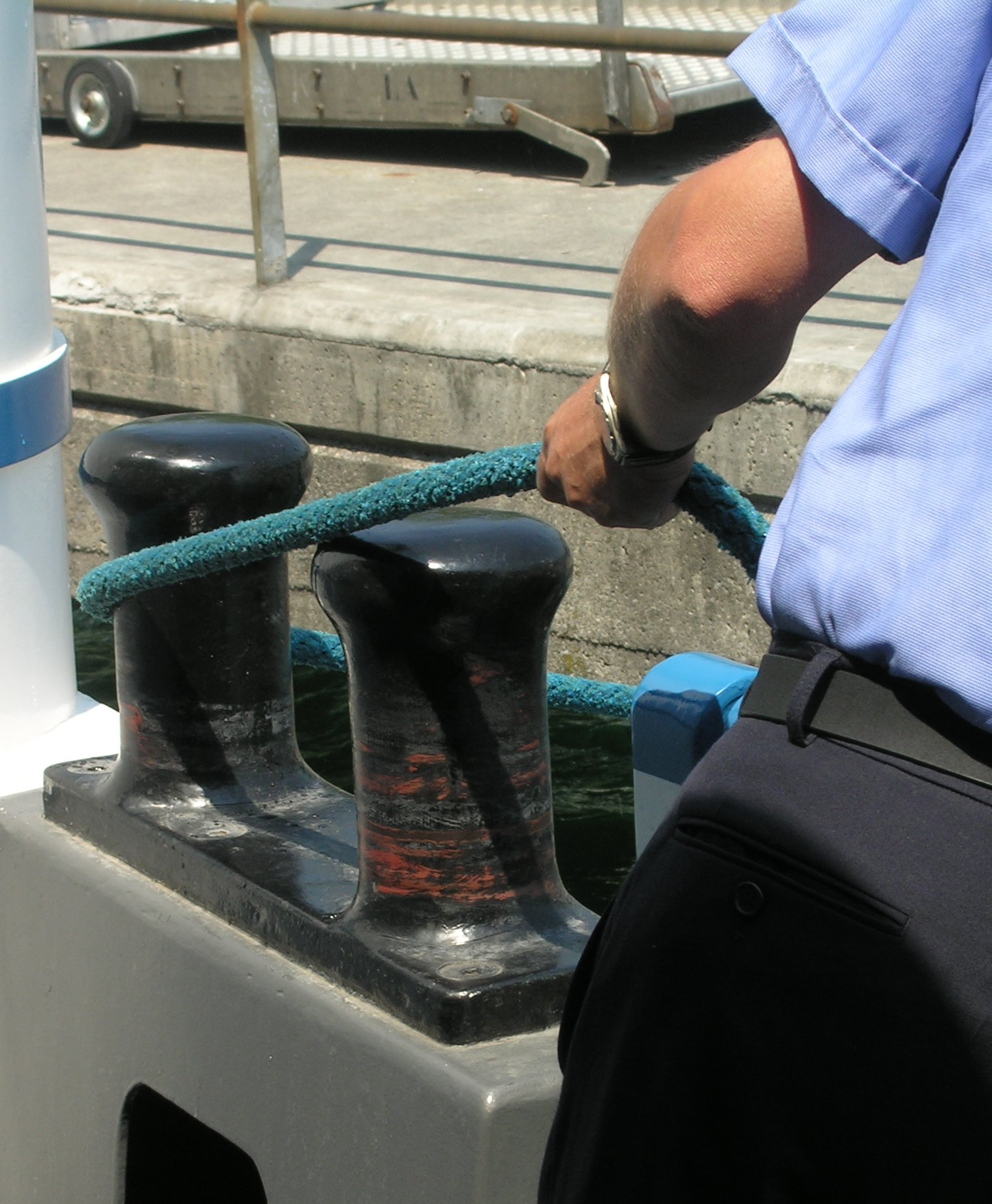 Pulling ship to the coast with the ship mooring pole. It is about 260 t ship in the Zurich lake.